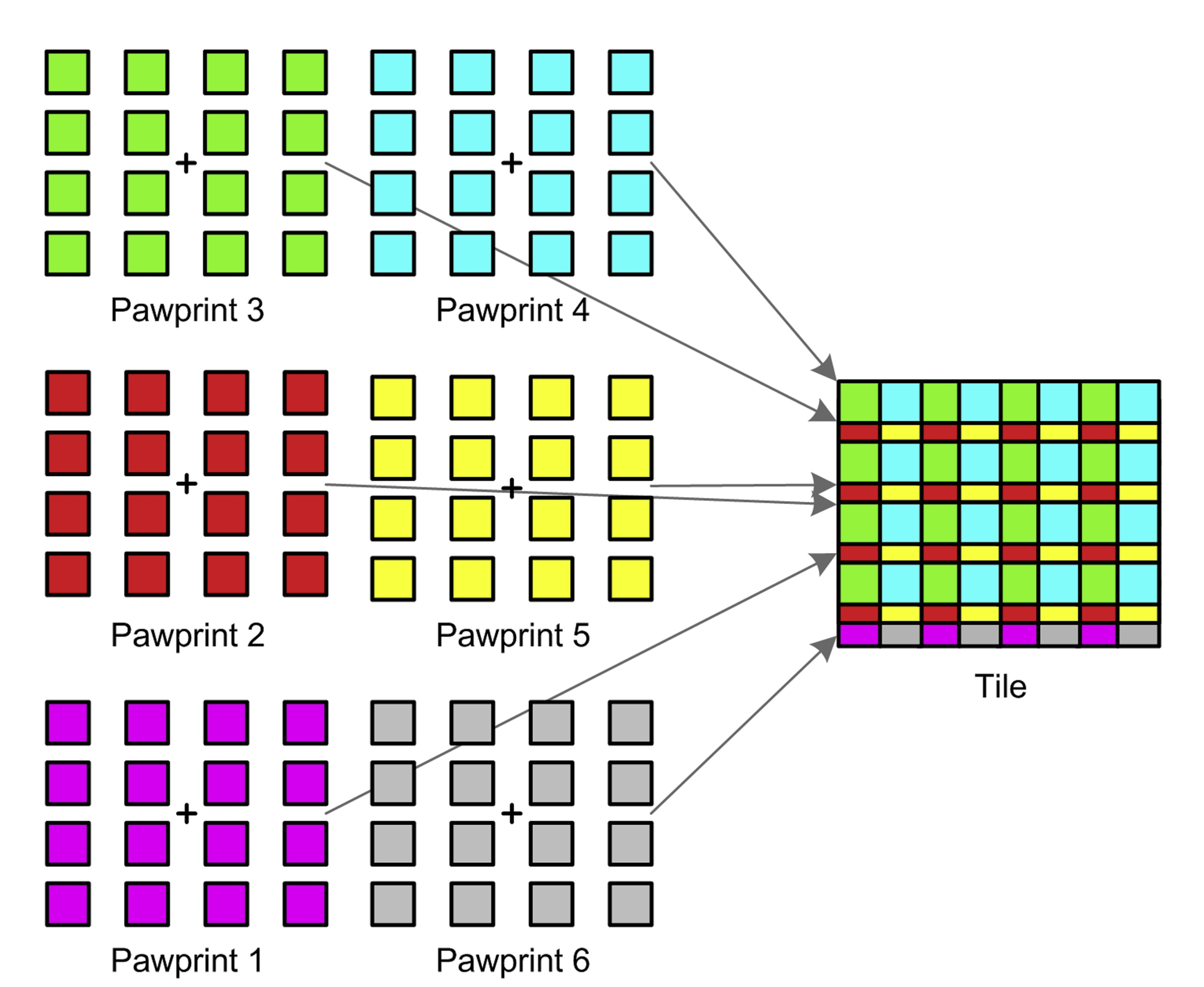 Because the VISTA camera has large gaps between the chips multiple images need to be taken at slightly different pointing's so that an image covering a contiguous piece of sky can be reconstructed. This picture shows how six different "paw print" exposures are combined to make one "tile", shown on the right.